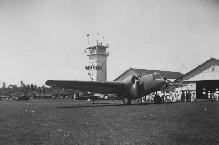 A KNIL 'Glenn Martin' bomber at the Andir military airport near Bandung